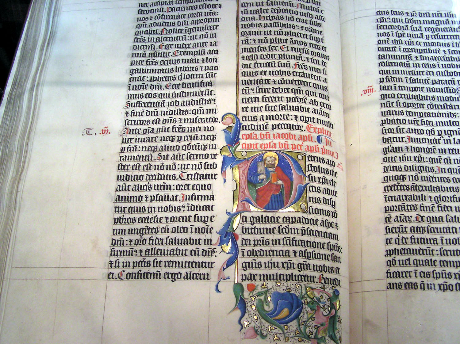 Illuminated lettering in a Latin Bible of 1407AD on display in Malmesbury Abbey, Wiltshire, England. It was hand written in Belgium, by Gerard Brils, for reading aloud in a monastery. The illumination is a capital letter P since the letters following are ETRUS, making the word PETRUS (Peter in Latin).